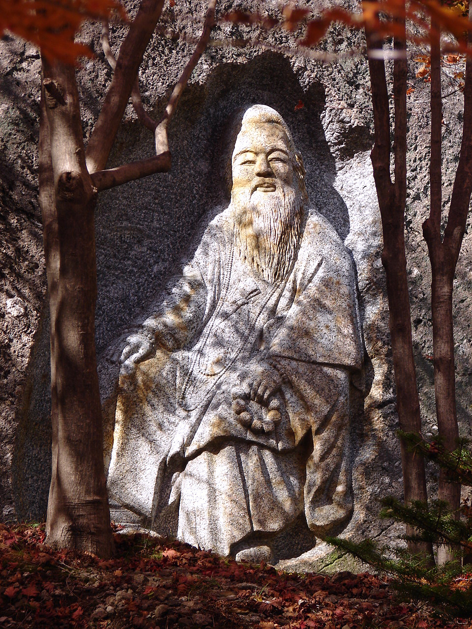 Engraved image of Whanin, Lord of Heaven, on the main grounds of Samseonggung. Samseonggung Shrine is dedicated to the traditional worship of the three mythical creators of Korea: Whanin, Whanung, and Dangun.